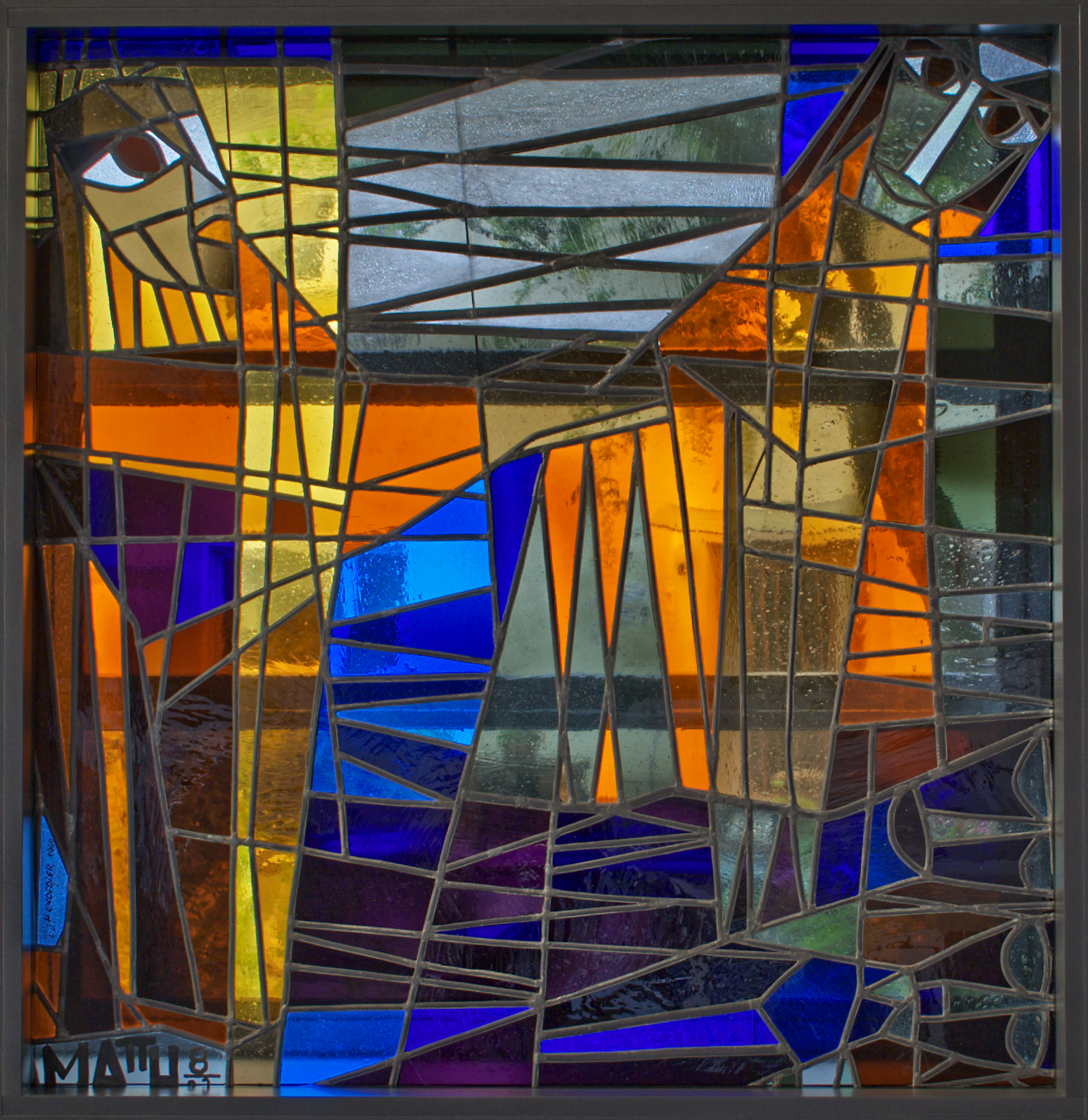 Stained glass window in the the protestant Christ church in Korntal in Southern Germany. “Follow me and let the dead bury their own dead.” (Matth 8:22). HDR